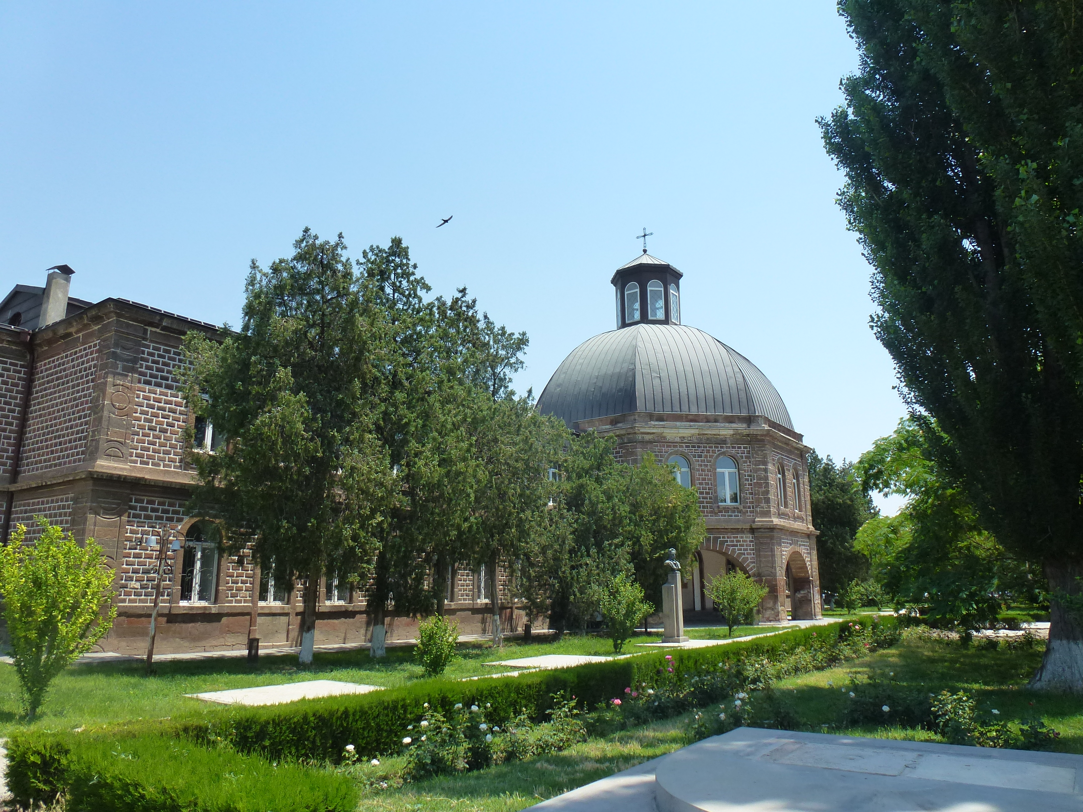 Gevorkian Seminary